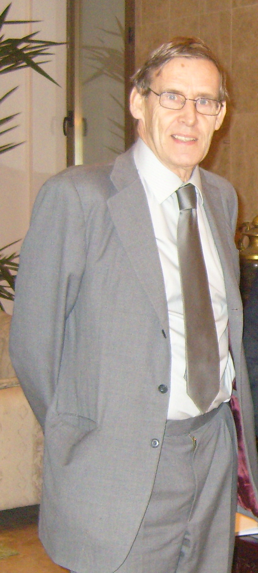 photo of British MP Martin Linton taken with his permission in 2010-01-15